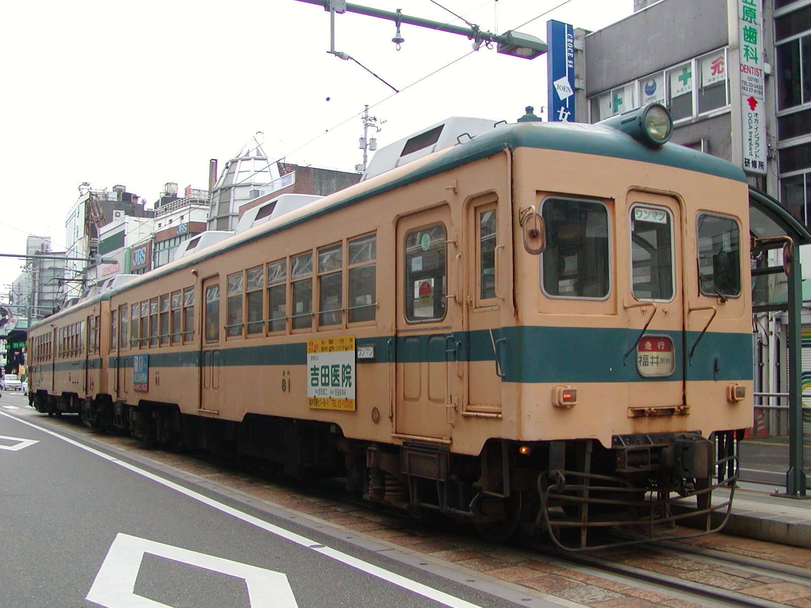 Fukui railway 81 in Fukui-ekimae station.